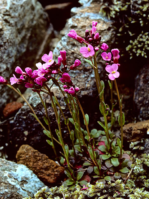 Arabis mcdonaldiana. US Forest Service photo, no copyright.